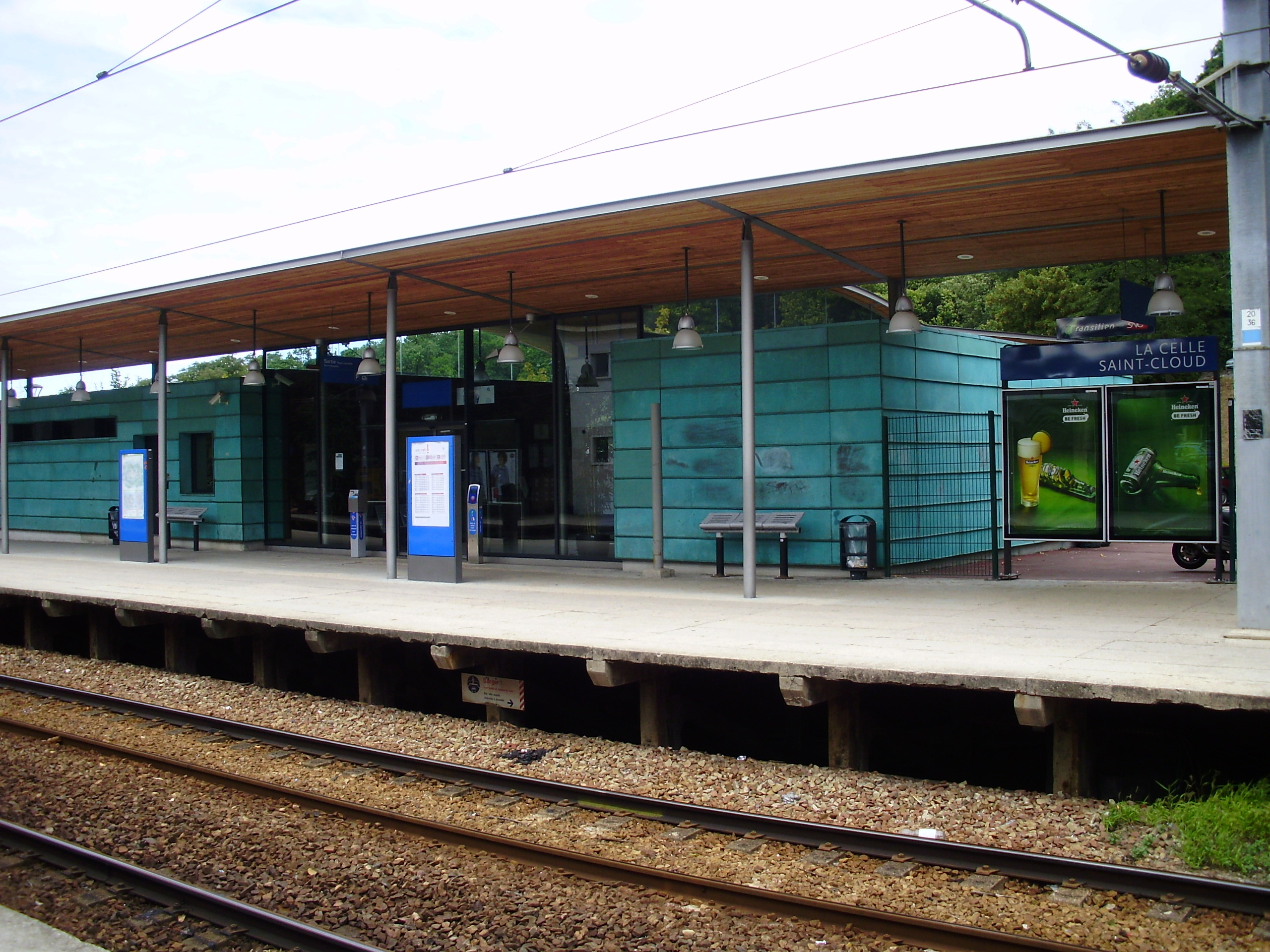 La Celle-Saint-Cloud station, Yvelines, France (view of the passengers building from the platform to Saint-Nom-la-Bretèche)